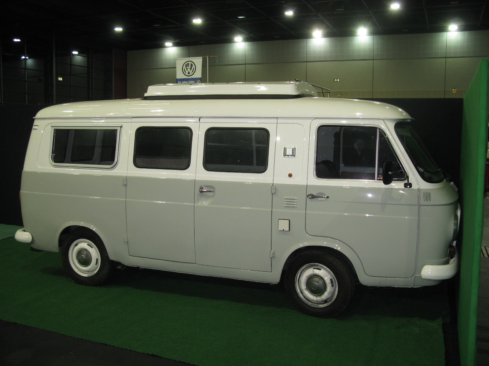 Fiat 238